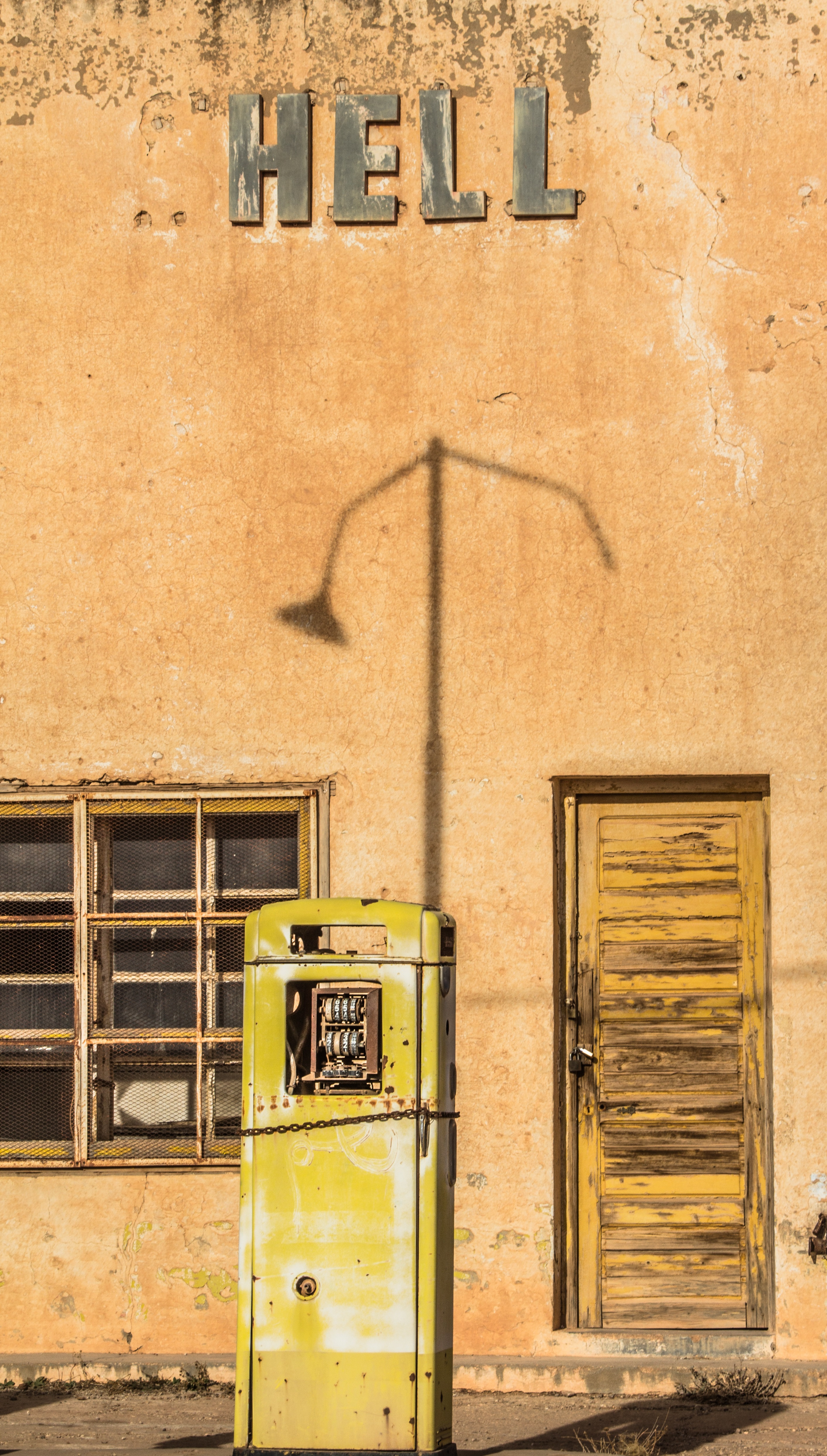 Abandoned gas station in Sidi Boubker village - Jerada MOROCCO by Brahim FARAJI This is an image with the theme "Africa on the Move or Transport" from: Morocco